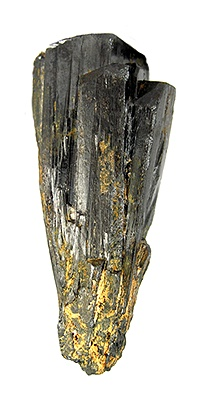 Ferrocolumbite, Manganotantalite Locality: Betafo District, Vakinankaratra Region, Antananarivo Province, Madagascar (Locality at ) Size: small cabinet, 6.0 x 2.5 x 2.1 cm Columbite/Tantalite This is a large, heavy, long prismatic, lustrous but opaque crystal cluster, combining two elements much in demand for making vital, metallic alloys. The color is blackish-brown, and the specimen is in very good shape, quite aesthetic overall. Ex. Richard Hauck Collection.